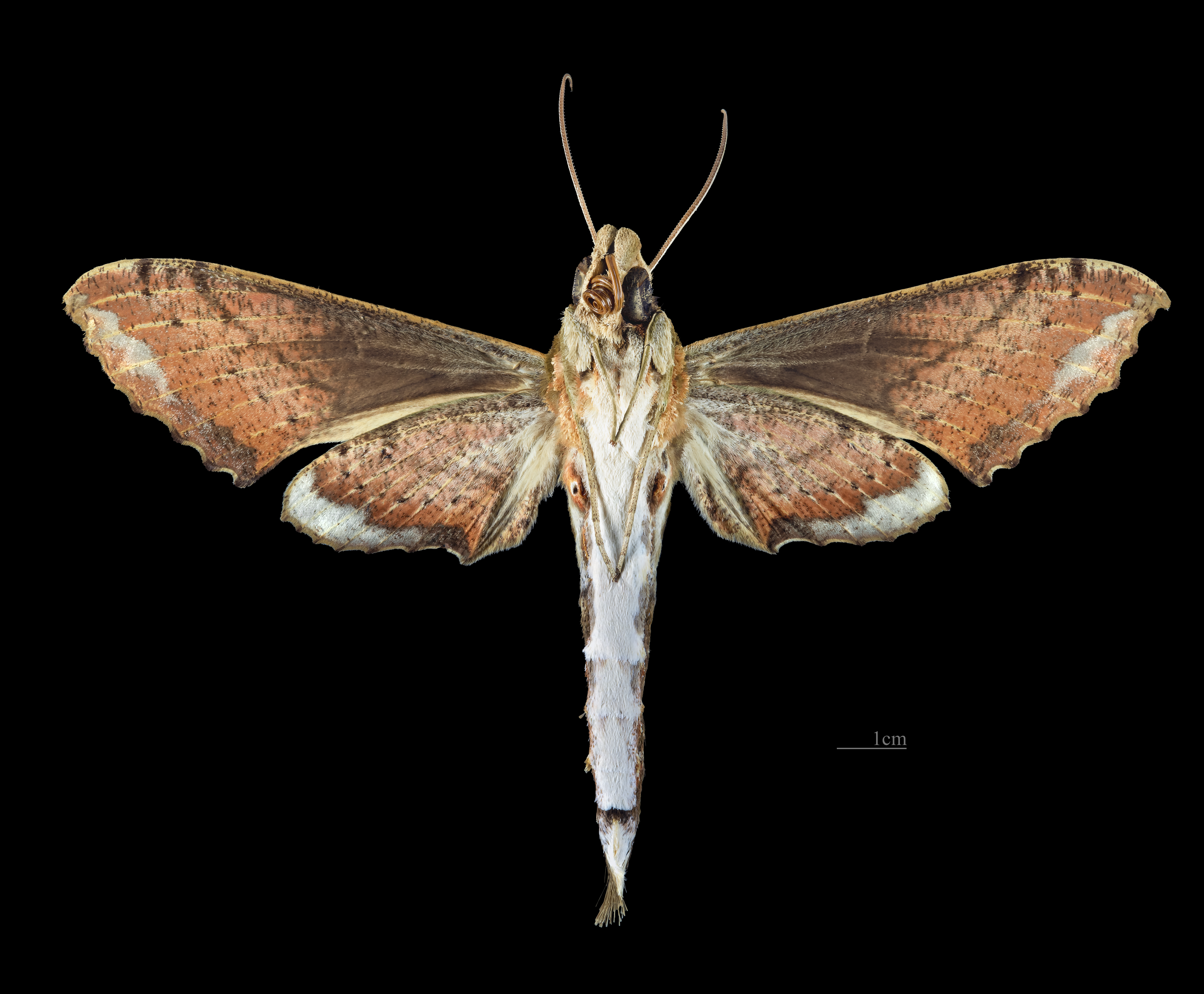 Xylophanes undata - △ Ventral side Collection of the Mathematician Laurent Schwartz